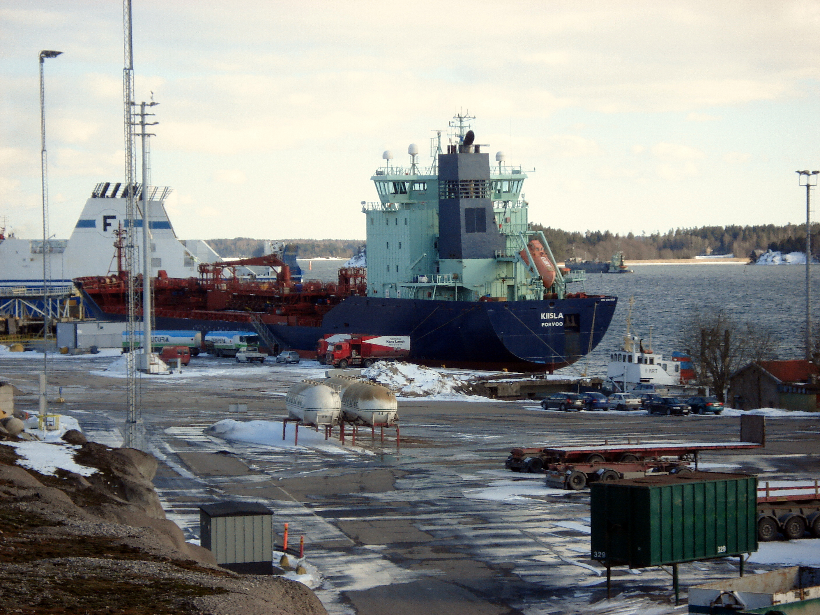 M/T Kiisla owned by Neste Oil at port of Naantali, Finland. IMO Number: 9267558 MMSI Number: 230956000 Callsign: OJKY Length: 140 m Beam: 22 m